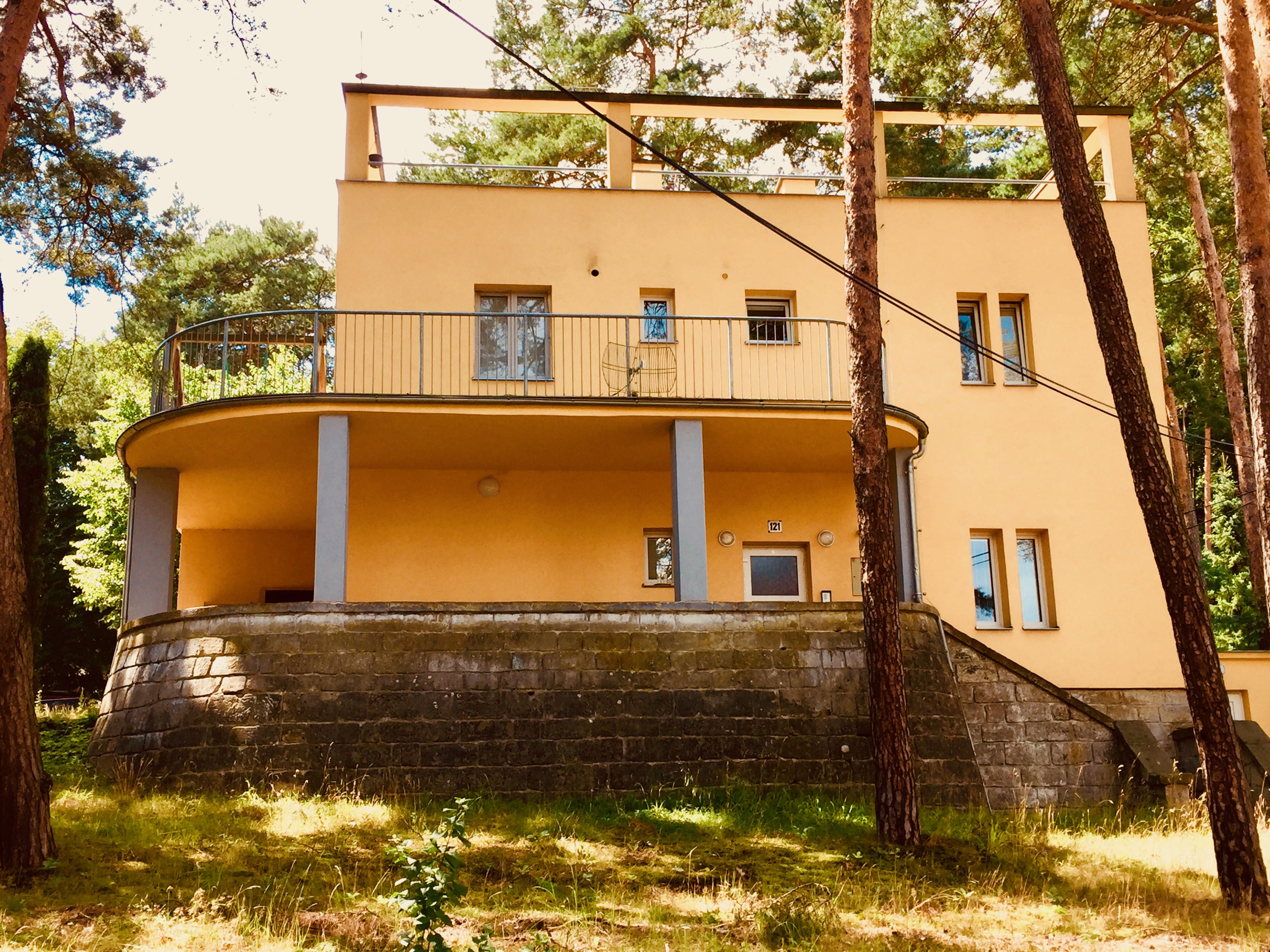 Otto Kohn's functionalist villa at Lázeňský vrch, Staré Splavy